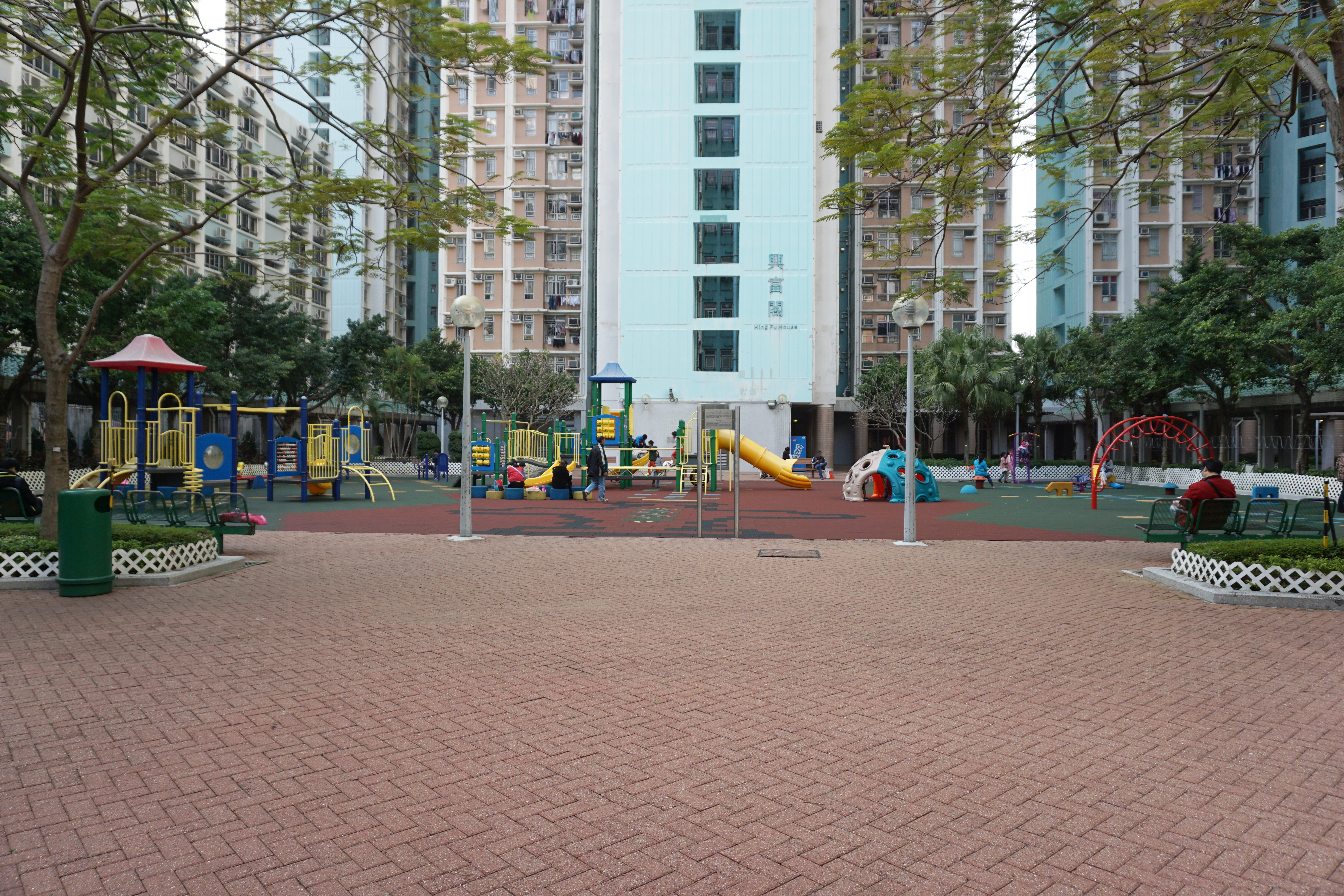 Tin Fu Court in Tin Shui Wai, Hong Kong.